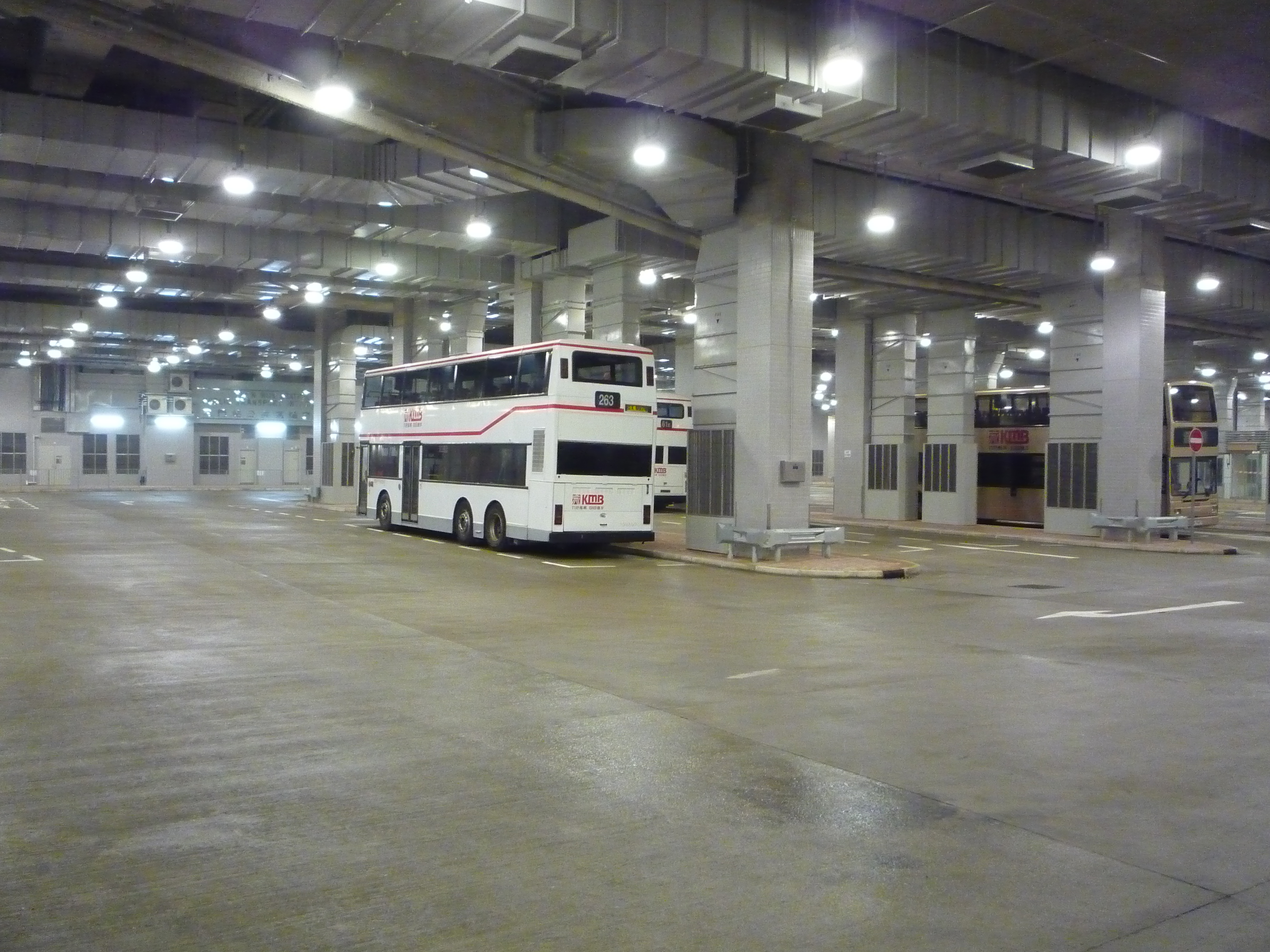 Tuen Mun Station Public Transport Interchange